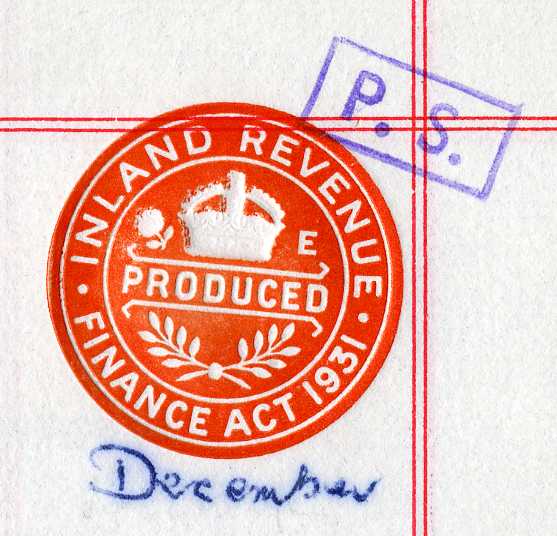 Inland Revenue indicia from house deed document.